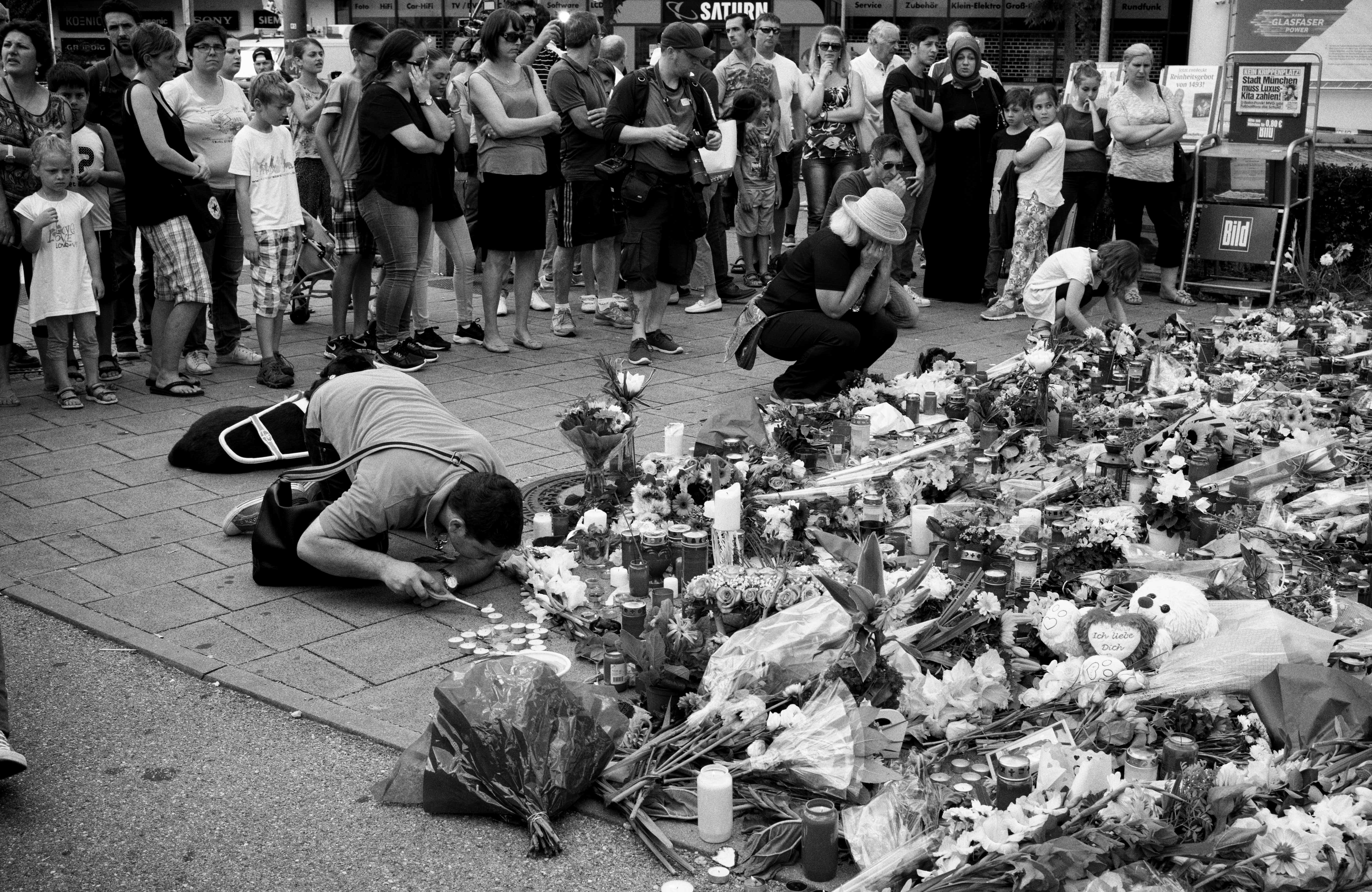 2016 Munich shootings flowers